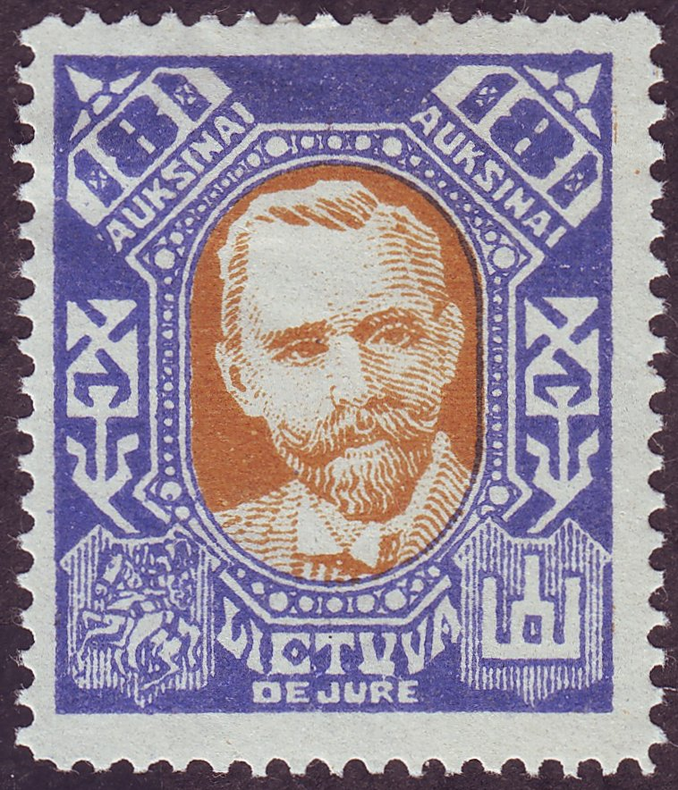 Stamp of Lithuania, issued 1922-09-27, with a portrait of Antanas Smetona (1874-1944). Designed by Adomas Varnas. Michel 136